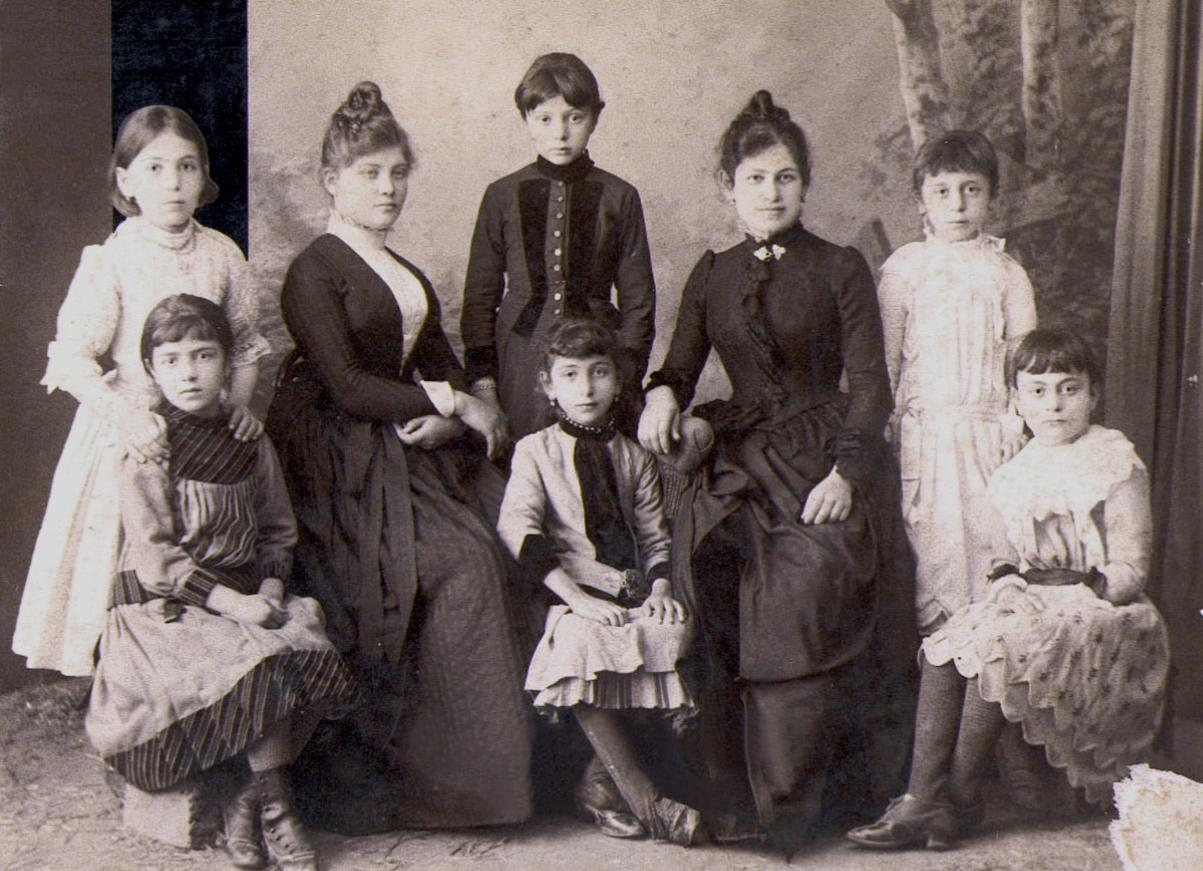 Pontian Greek ladies and children of Trabzon, Athena Fyllizi-Kartasi, Lefkothea Theofylaktou, Julia Theofylaktou (painter), Sophia-Velissaridis Kallivazi